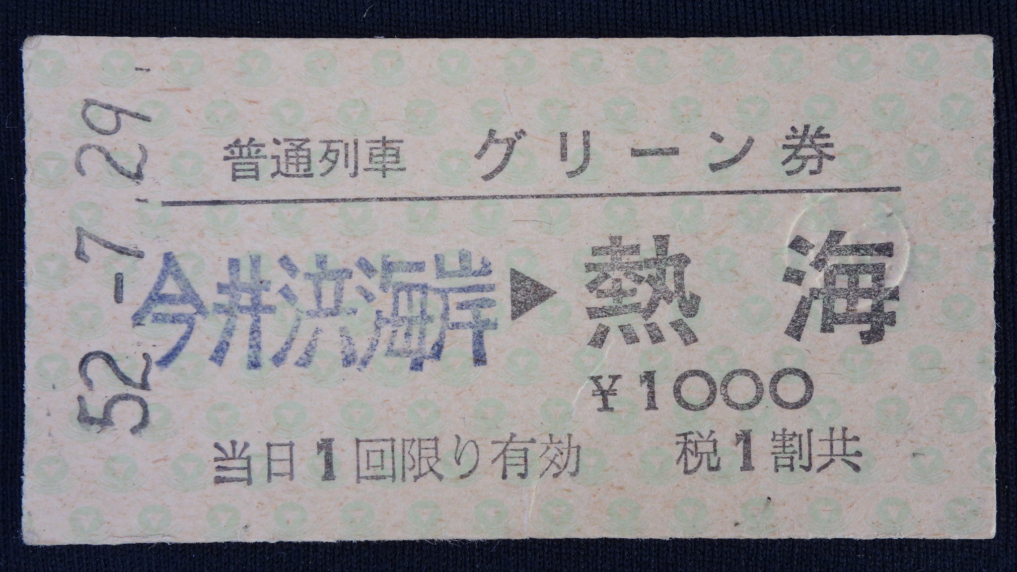 x-default